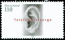 Stamp from Deutsche Post AG from 1998, crisis line